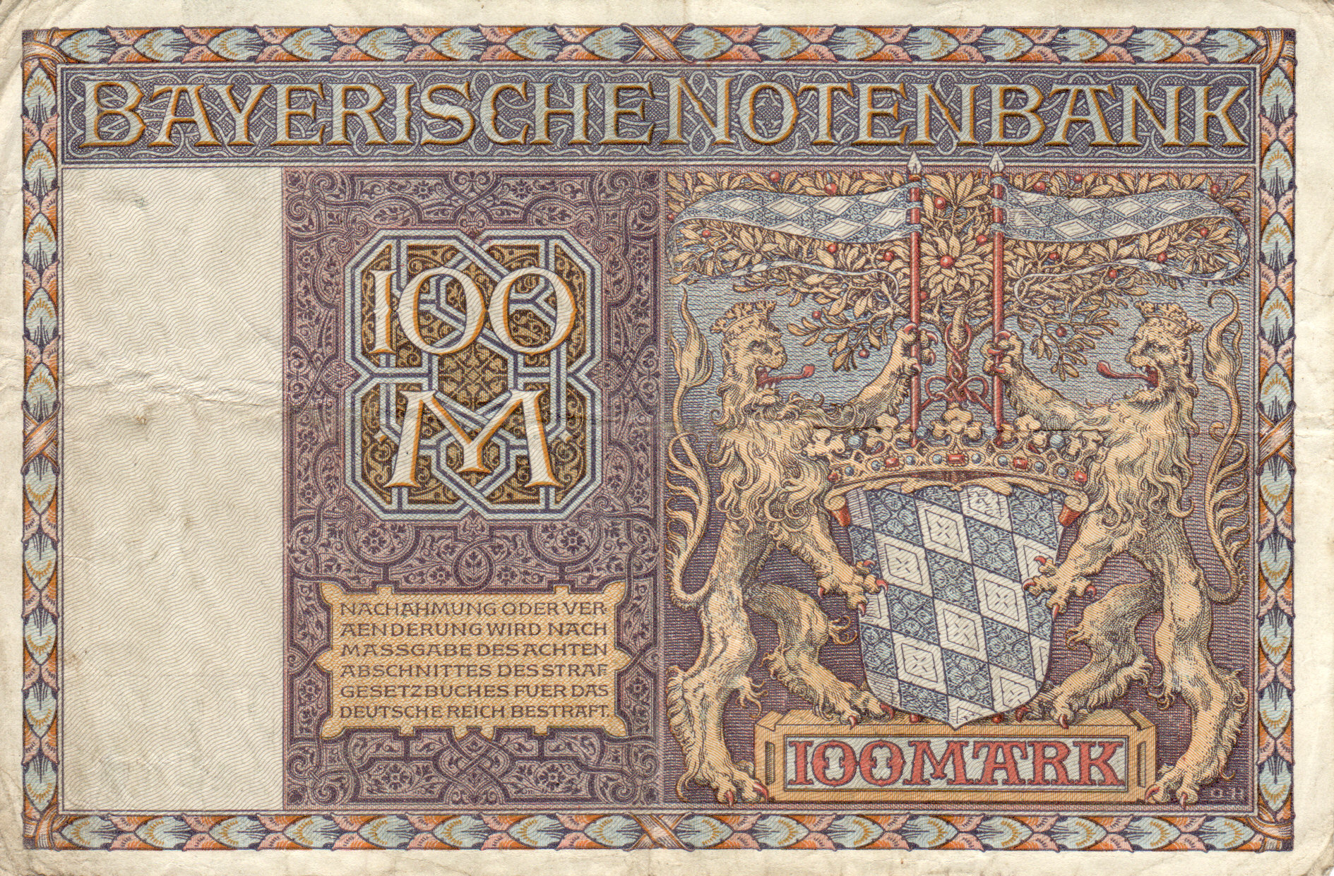 Bavarian currency from the year 1922.